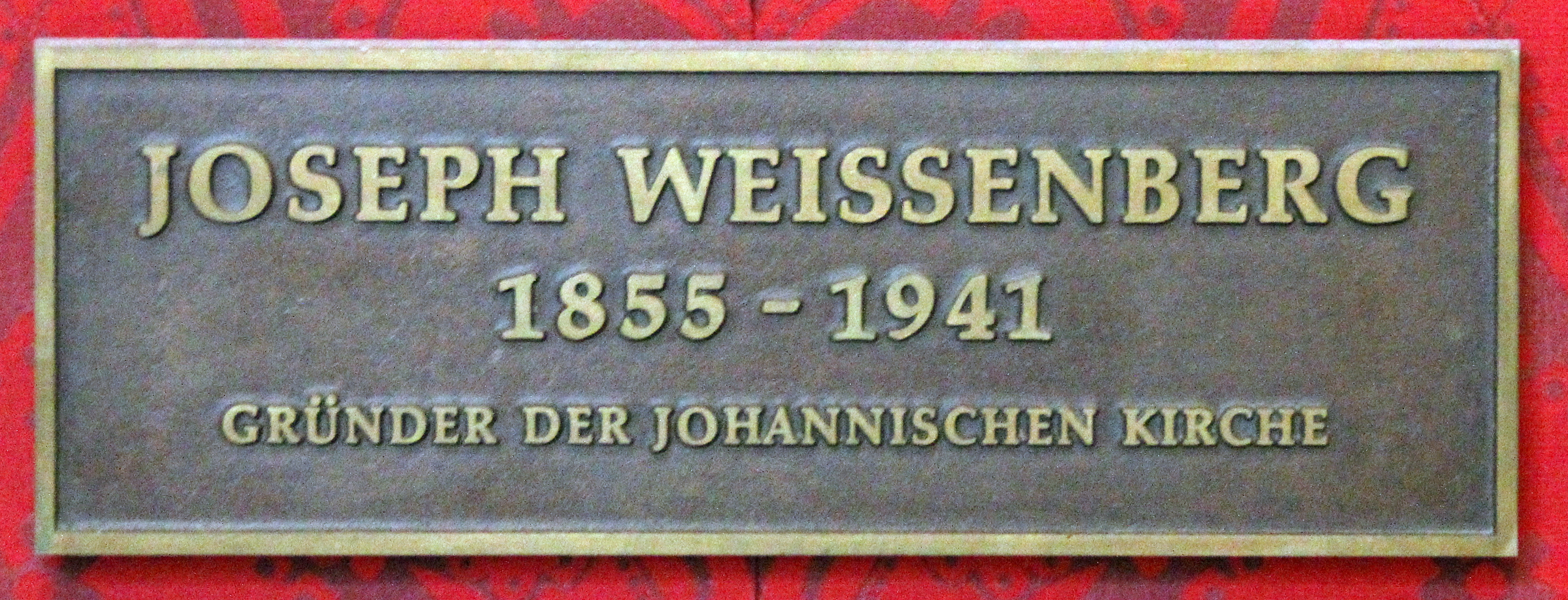 Memorial plaque, Joseph Weißenberg, Bismarckallee 23, Berlin-Grunewald, Germany